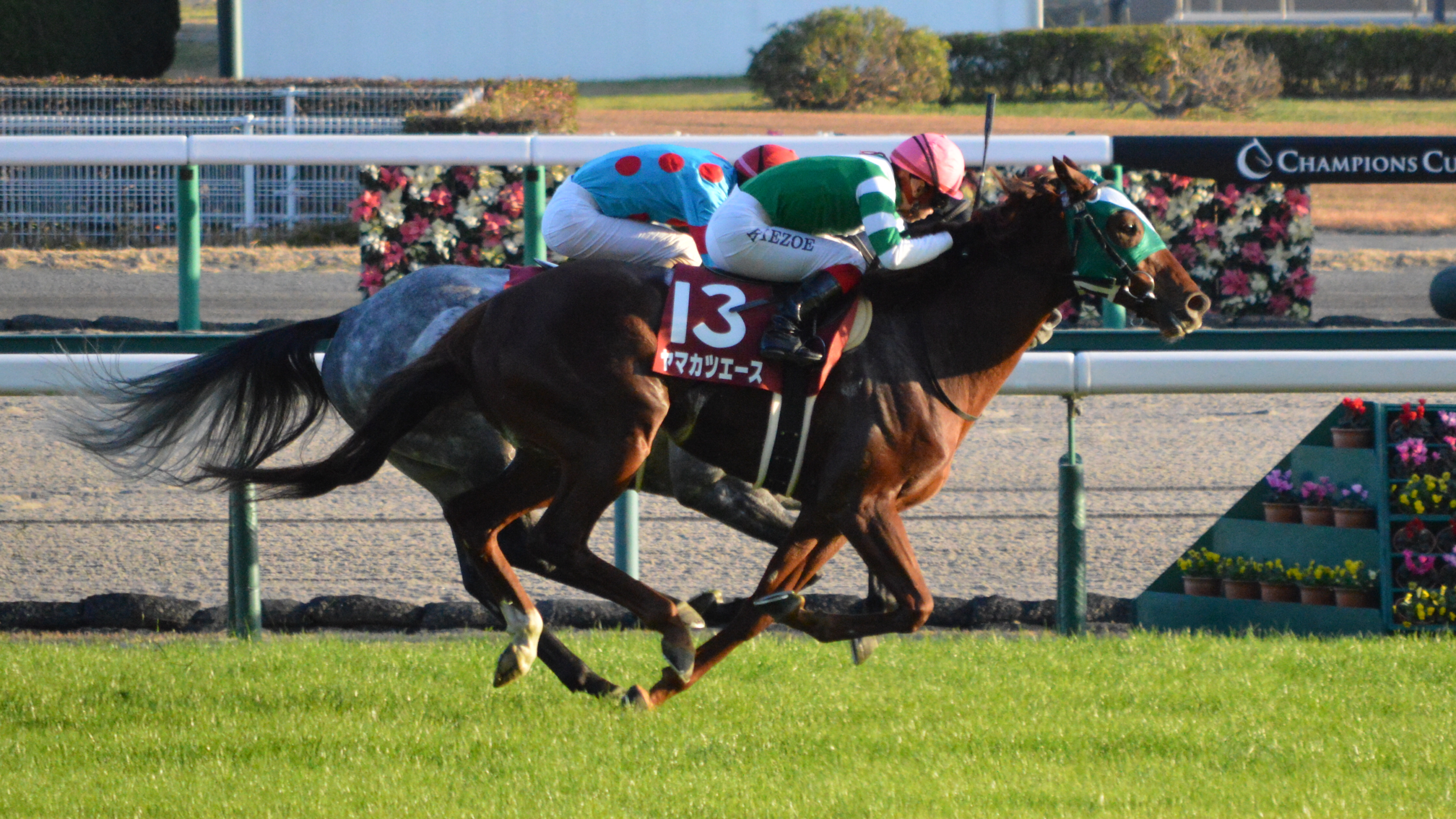 Japanese race horse Yamakatsu Ace at Chukyo racecourse.